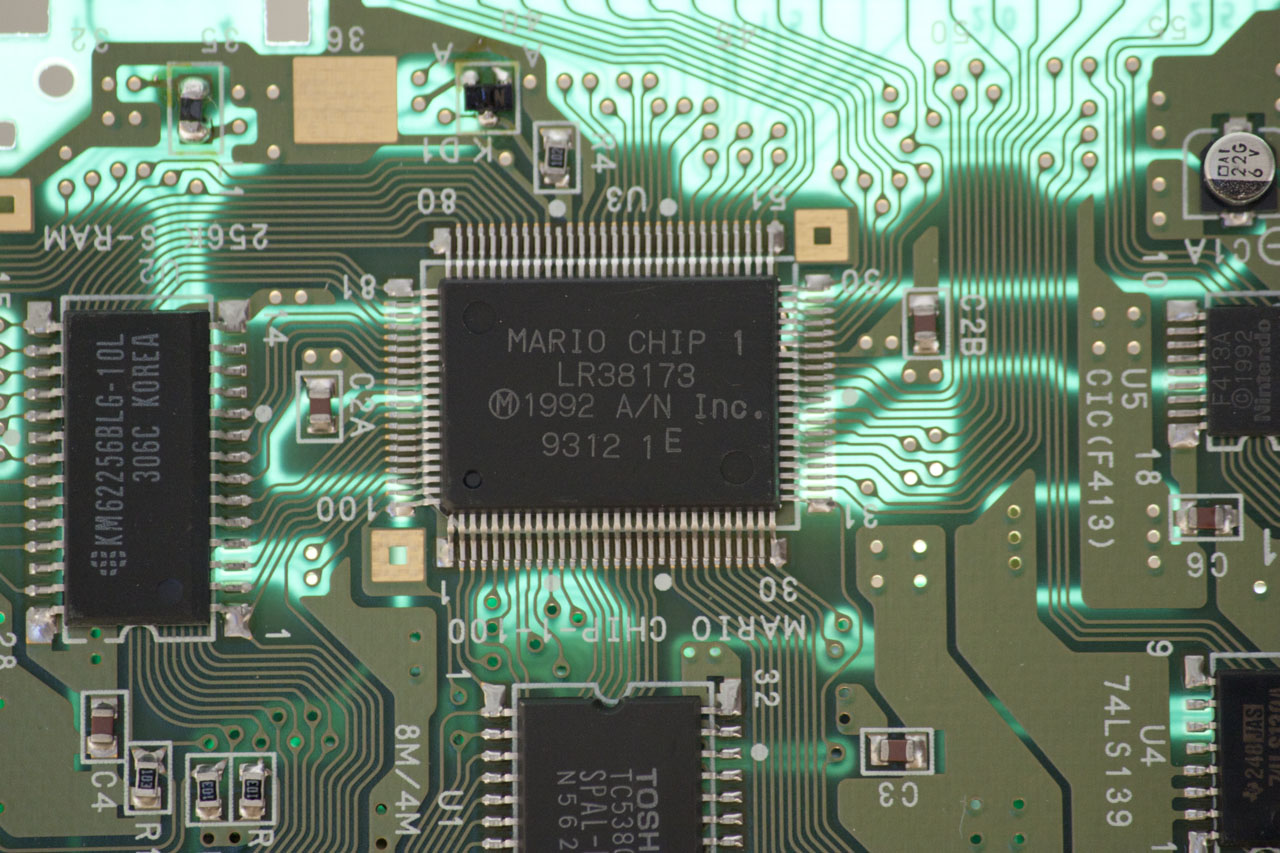 MARIO CHIP 1, as found in a PAL-UK copy of Starwing.